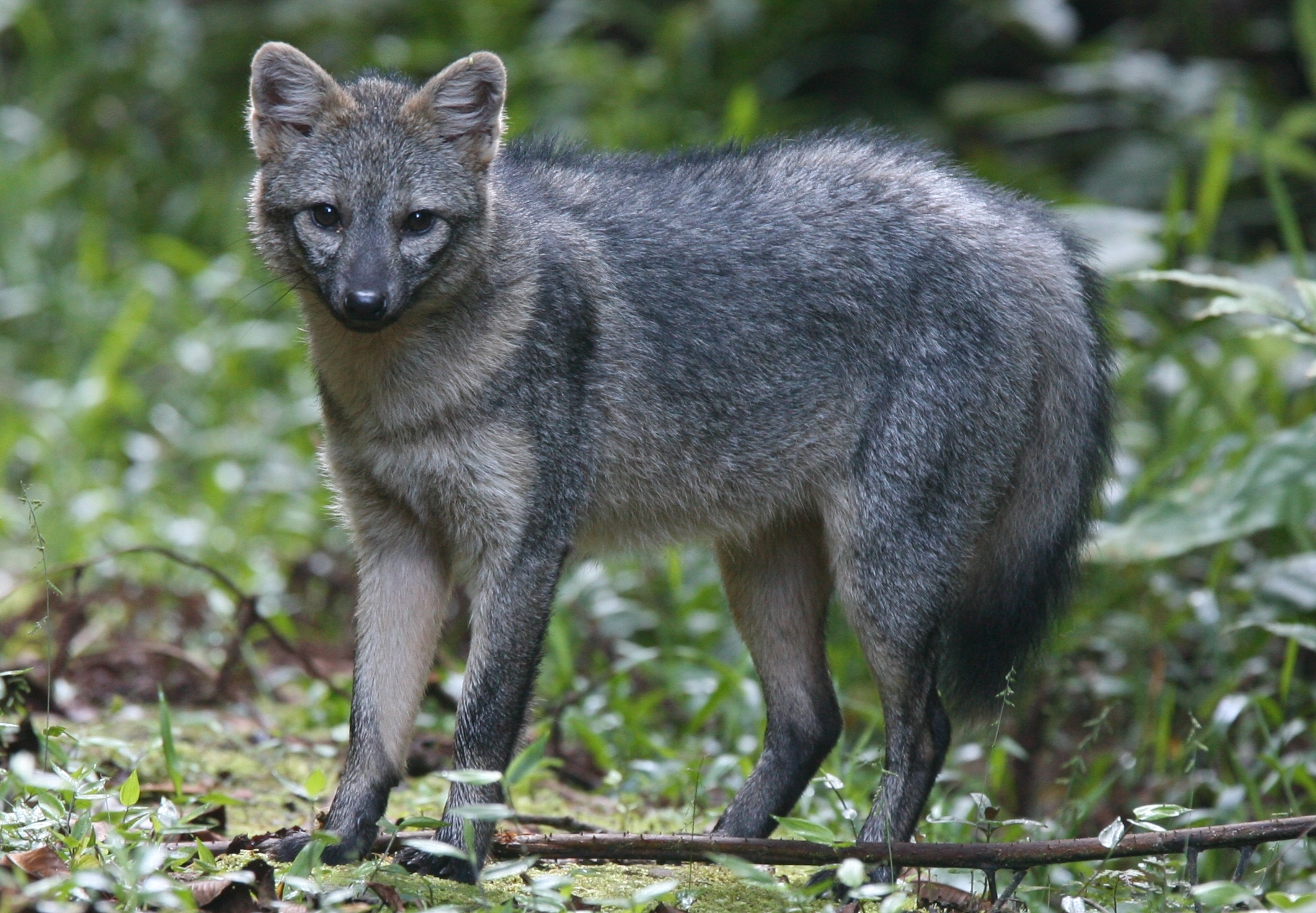 Crab-eating Fox in ProAves Cerulean Warbler Reserve, San Vincente, Colombia